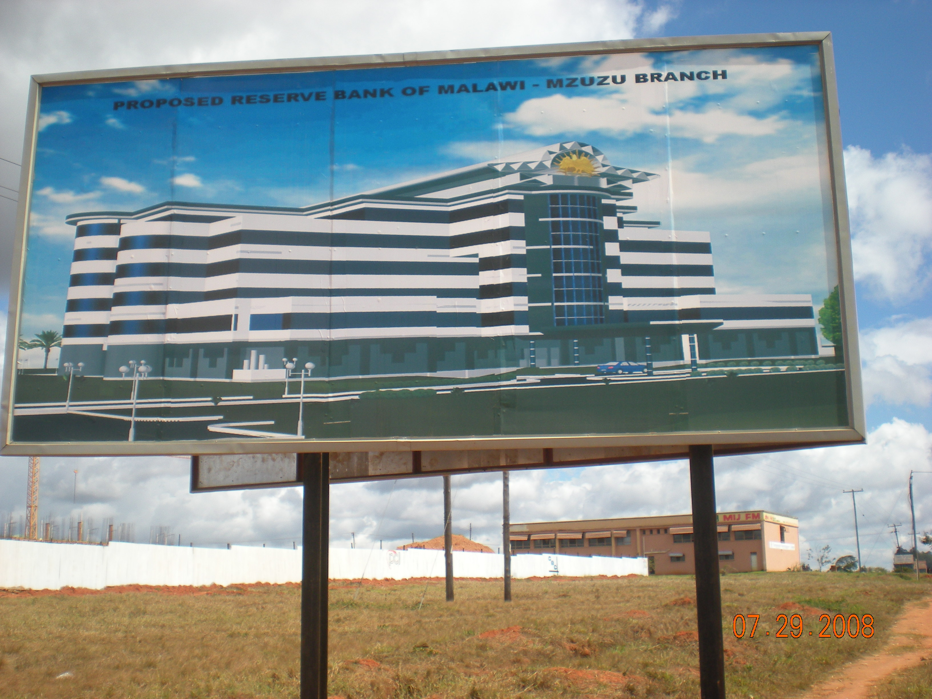 Reserve Bank of Malawi Mzuzu Branch under construction. Mzuzu, just like all major cities in Malawi, is a fast growing city